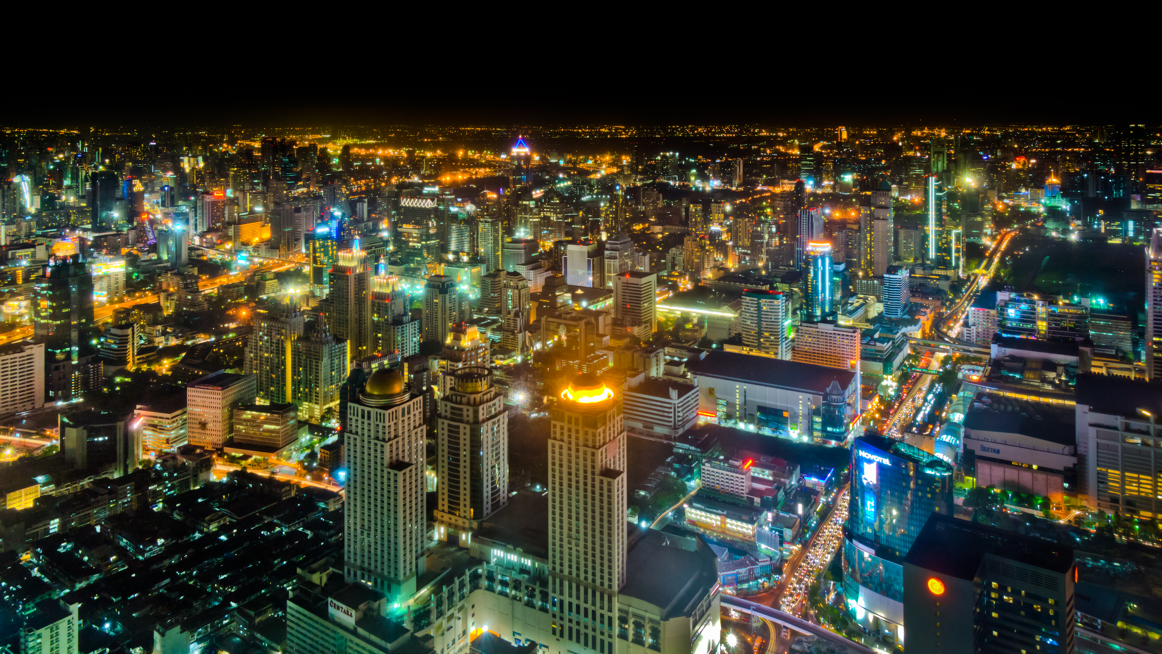 View over Bangkok at night from Baiyoke Tower II